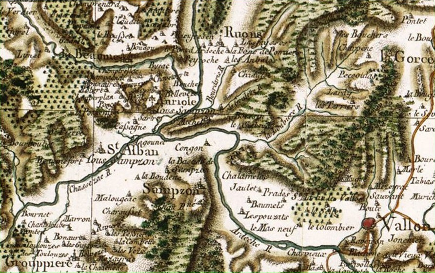 Cassini map, section showing all the above named towns in Ardèche. Conflence of the CHassezac river in the Ardèche river.